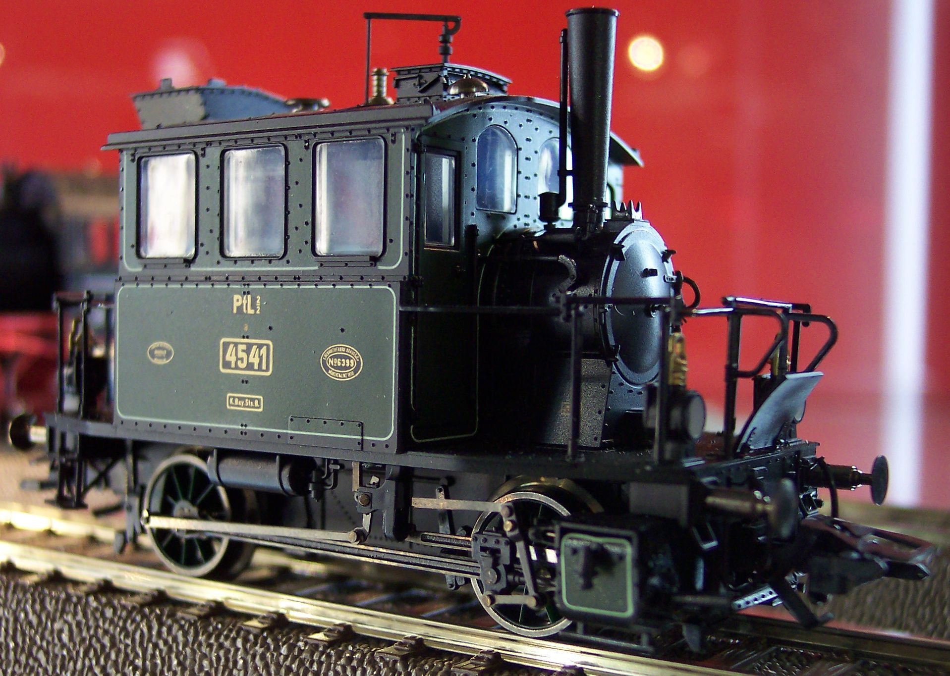 Trix-model of a german steam locomotive form 1905 Bayerische PtL 2/2